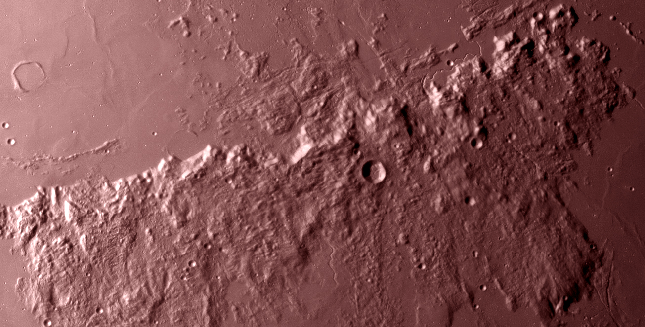 Apennines, on the Moon. Infrared image in L band centred on 3.75 micrometres. Taken with the SIRCA camera by M. Gålfalk, G. Olofsson, and H.-G. Florén. Nordic Optical Telescope, Stockholm Observatory. More images can be found here.